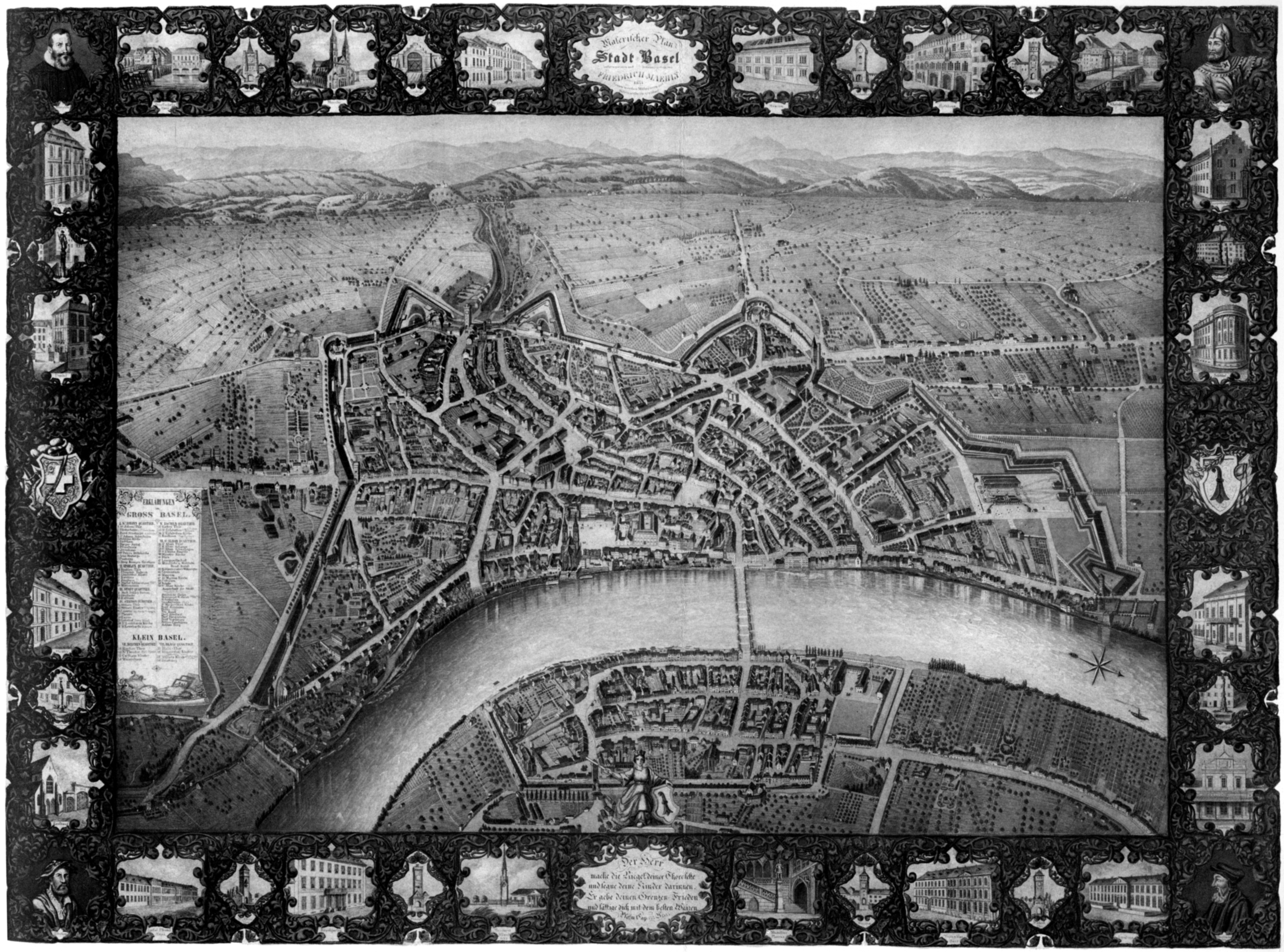 The city of Basel in Switzerland 1847